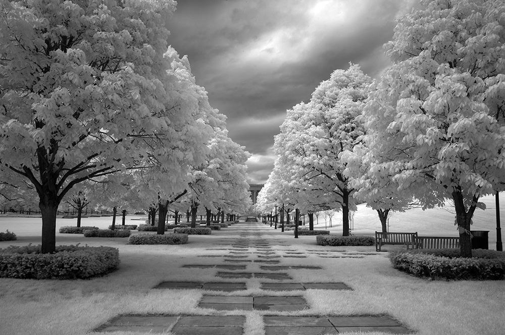 Nelson-Atkins Museum of Art, Kansas City, Missouri, United States